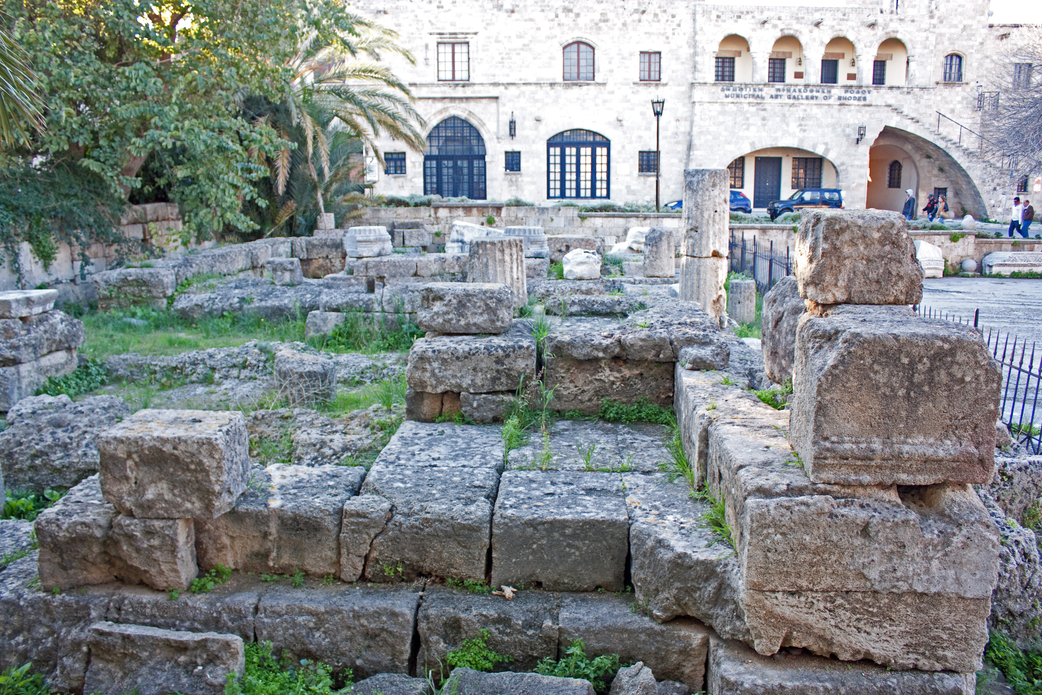 Temple of Aphrodite in the medieval city of Rhodes, Greece with the Municipal Art Gallery of Rhodes in the background.